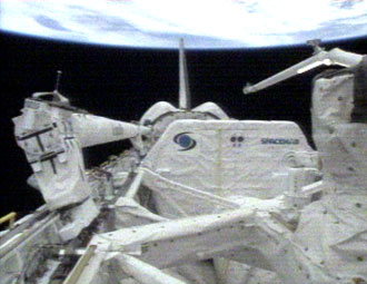 Space Shuttle Discovery, in orbit - Discovery's payload bay following activation of the robotic arm to be used in the inspection of the Orbiter's heat shield - in view is the robotic arm, the SPACEHAB module, and the ISS P5 truss, the main payload for the mission.